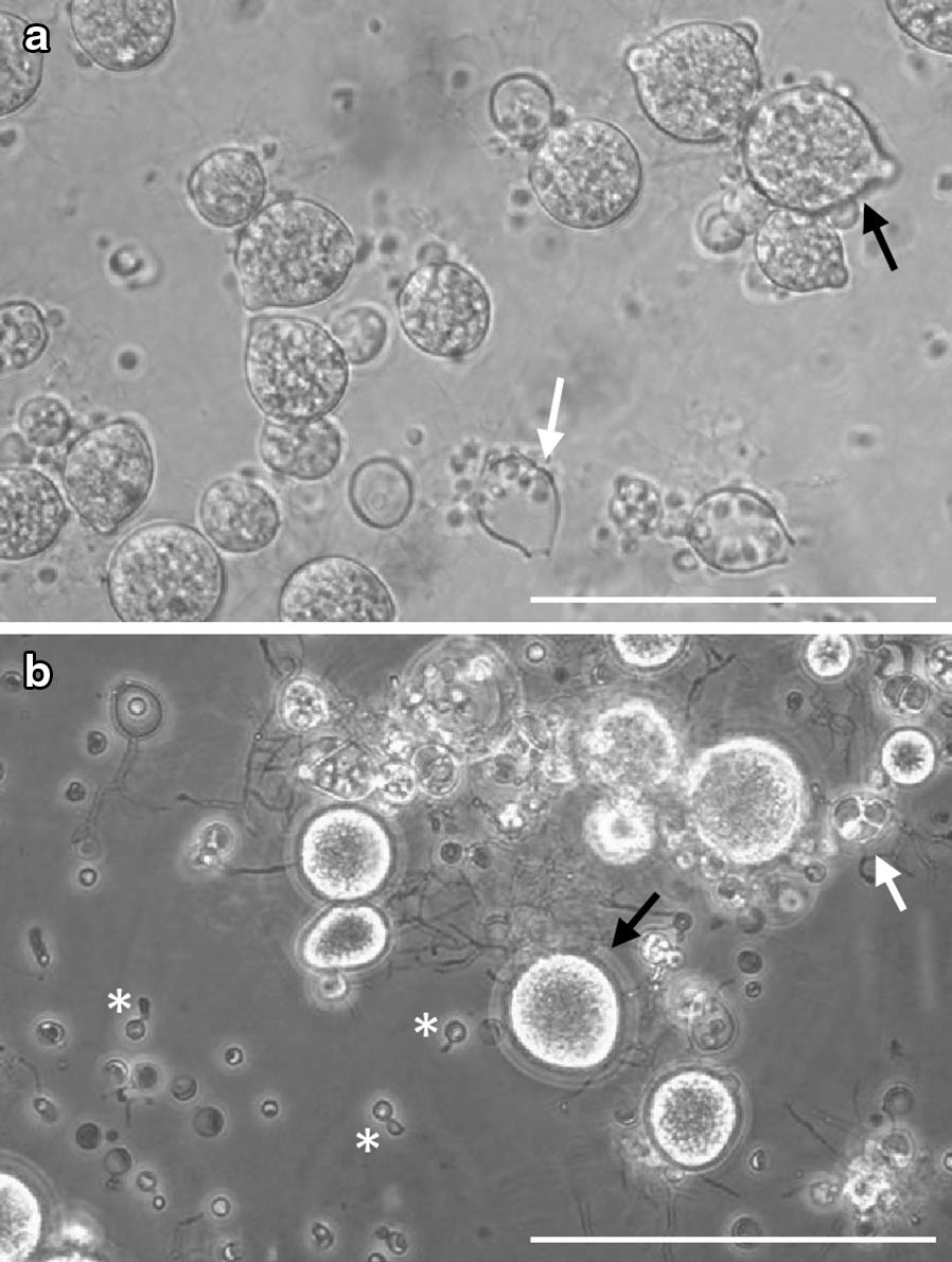 Morphology of Batrachochytrium species in culture. a) Culture of Batrachochytrium dendrobatidis on tryptone/gelatin-hydrolysate/lactose (TGhL)-broth, showing abundant mature zoosporangia (black arrow) containing zoospores and empty, discharged sporangia (white arrow); b) In culture (TGhL-broth) Batrachochytrium salamandrivorans is characterized by predominant monocentric thalli (black arrow), few colonial thalli (white arrow) and zoospore cysts with germ tubes (asterisk); scale bars 100 μm.